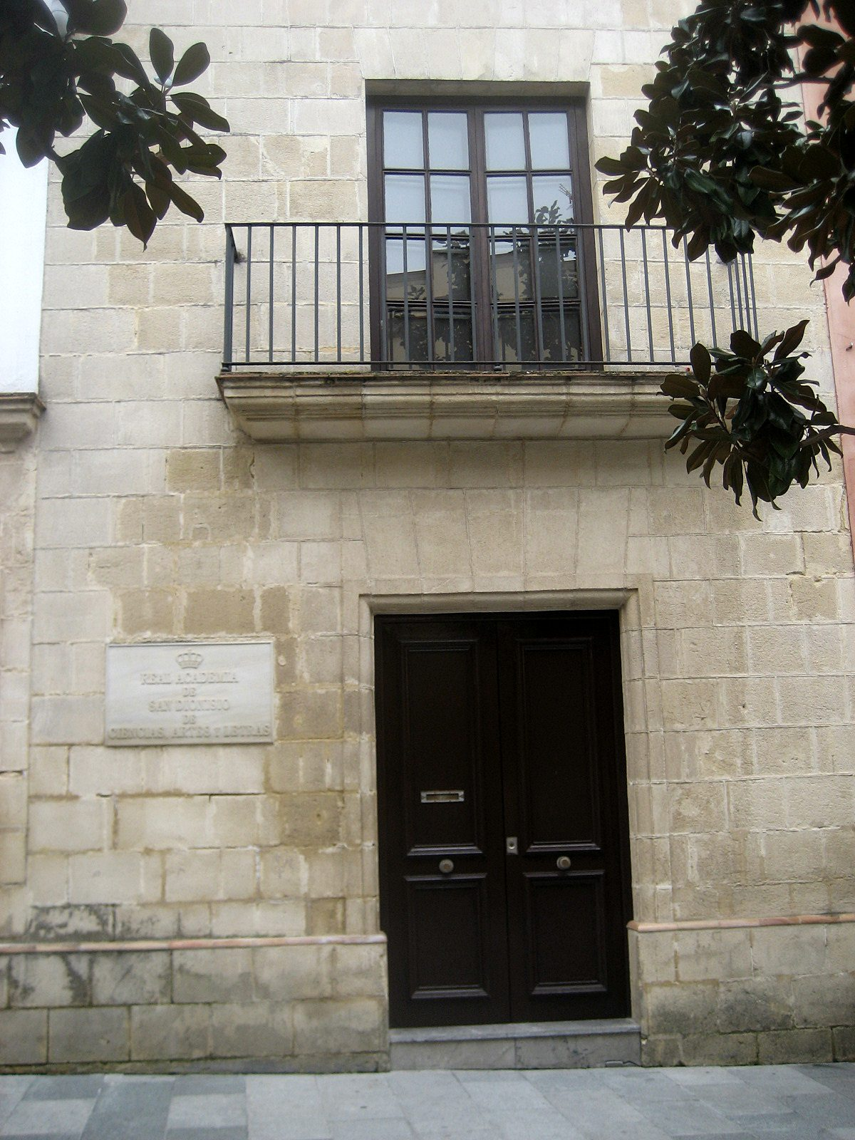 Foto realizada por José Luis Jiménez